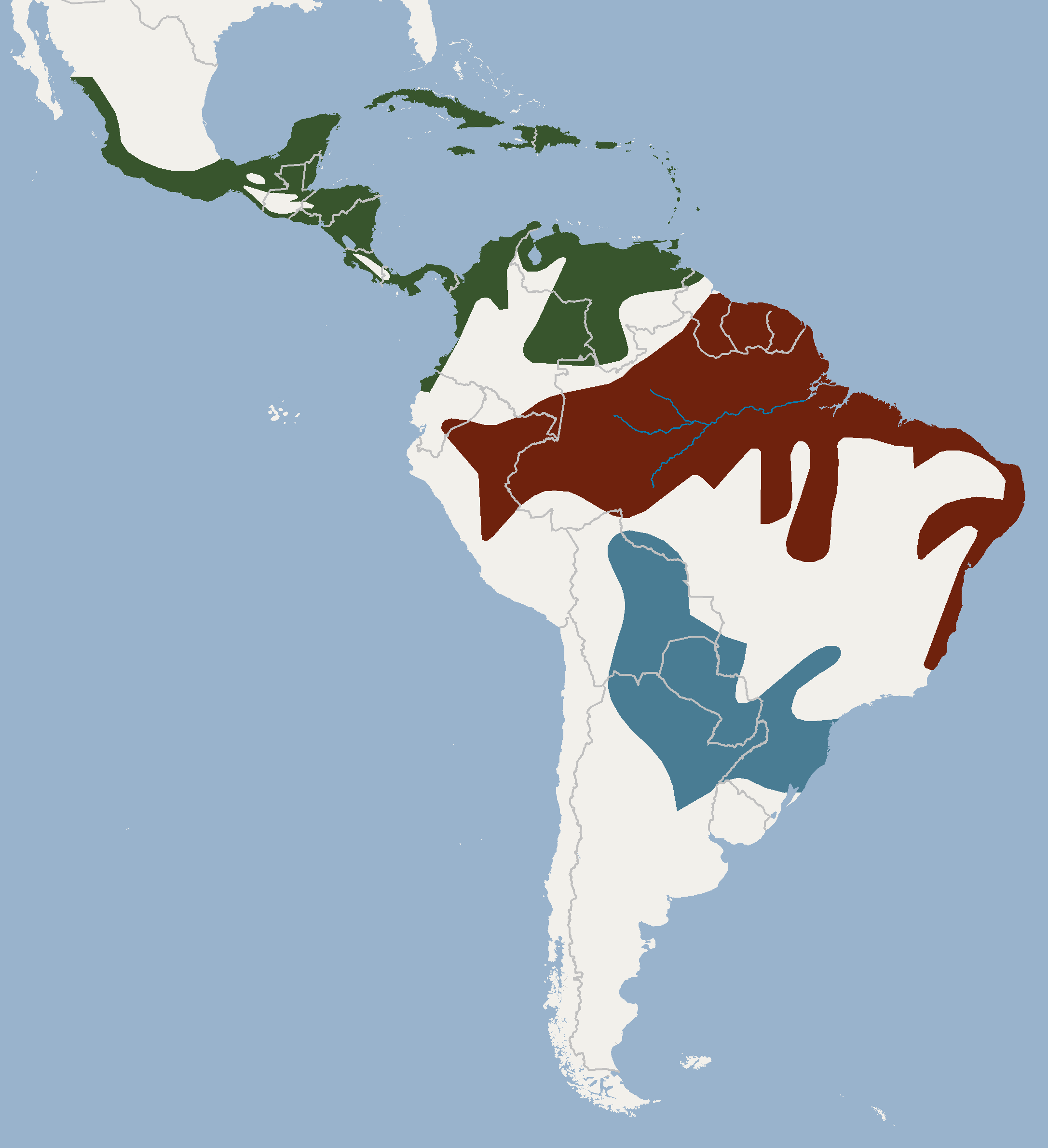 Geographical distribution of Noctilio leporinus according to Hood & Knox Jones Jr., 1984